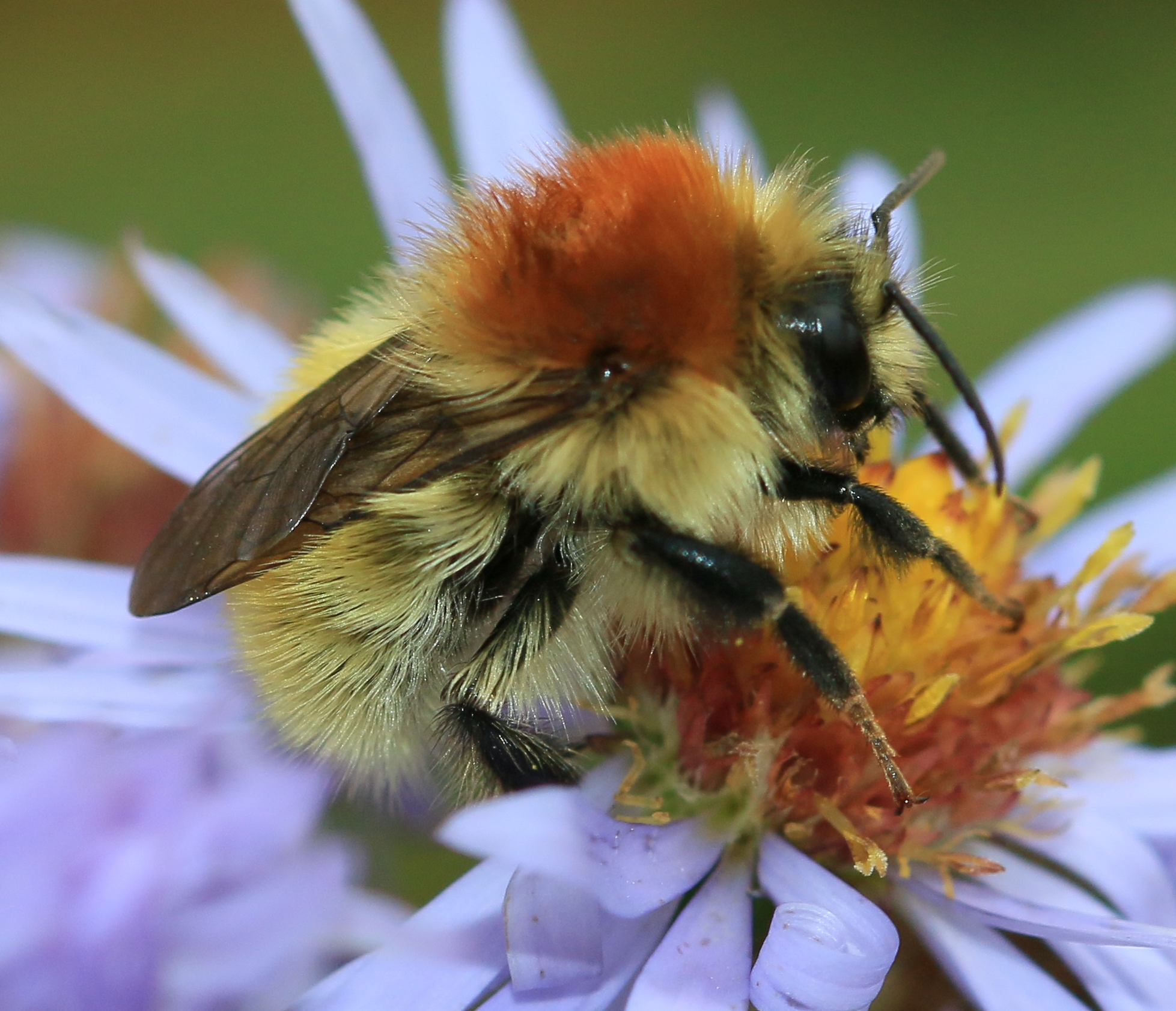 Deepsyke forest, Peebles-shire, Scotland. Male